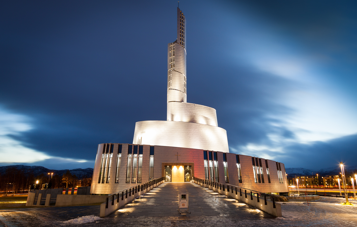 Alta Nordlyskatedralen Finnmark